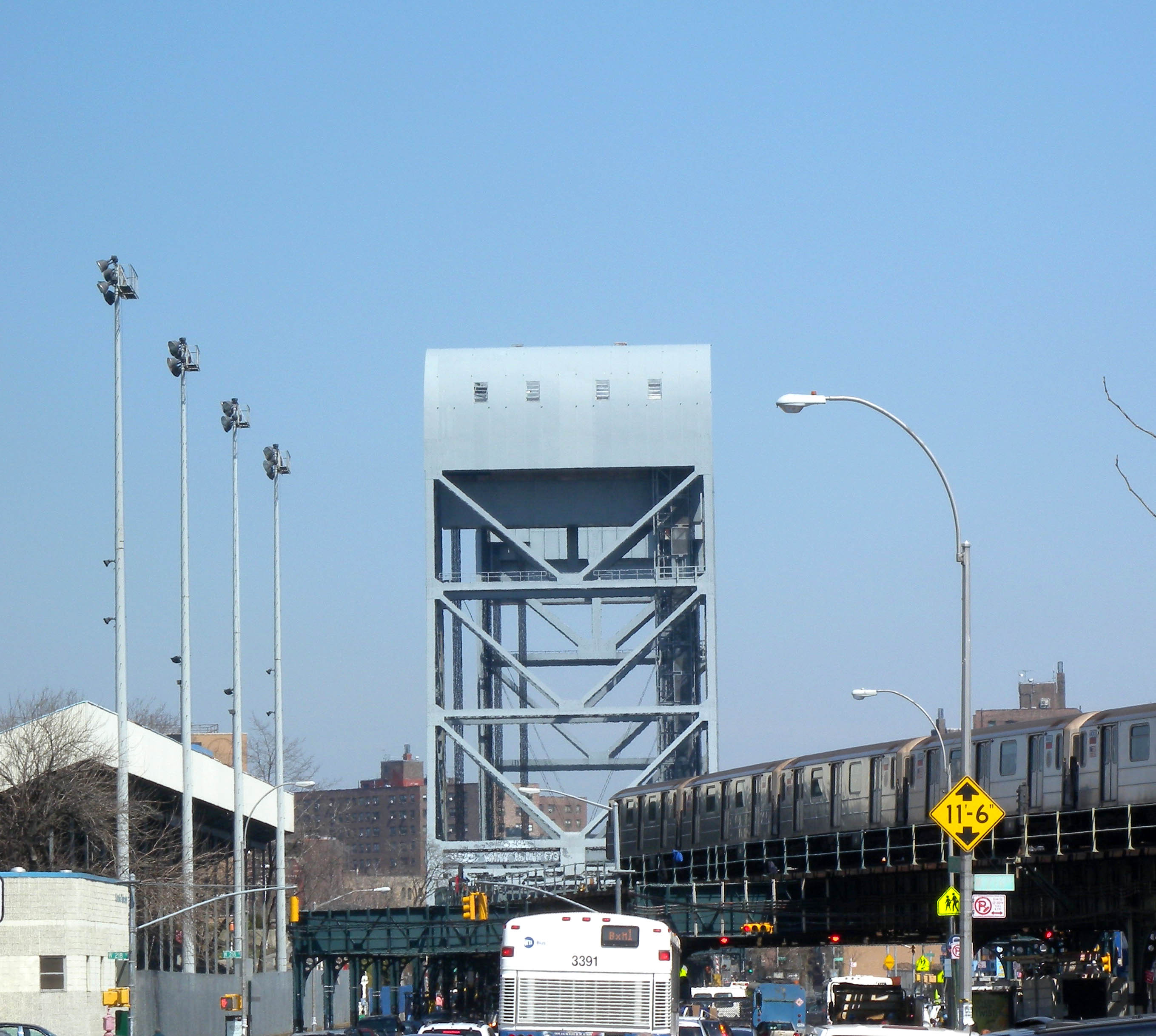 Looking north from Broadway at 1 train crossing Broadway Bridge (Manhattan) at midday.